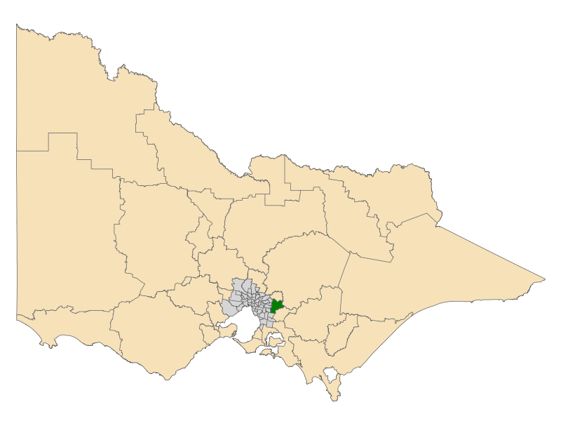 Location of the Electoral District of Monbulk (dark green) in the state of Victoria, Australia. These boundaries were used for the Victorian state election on 29 November 2014.